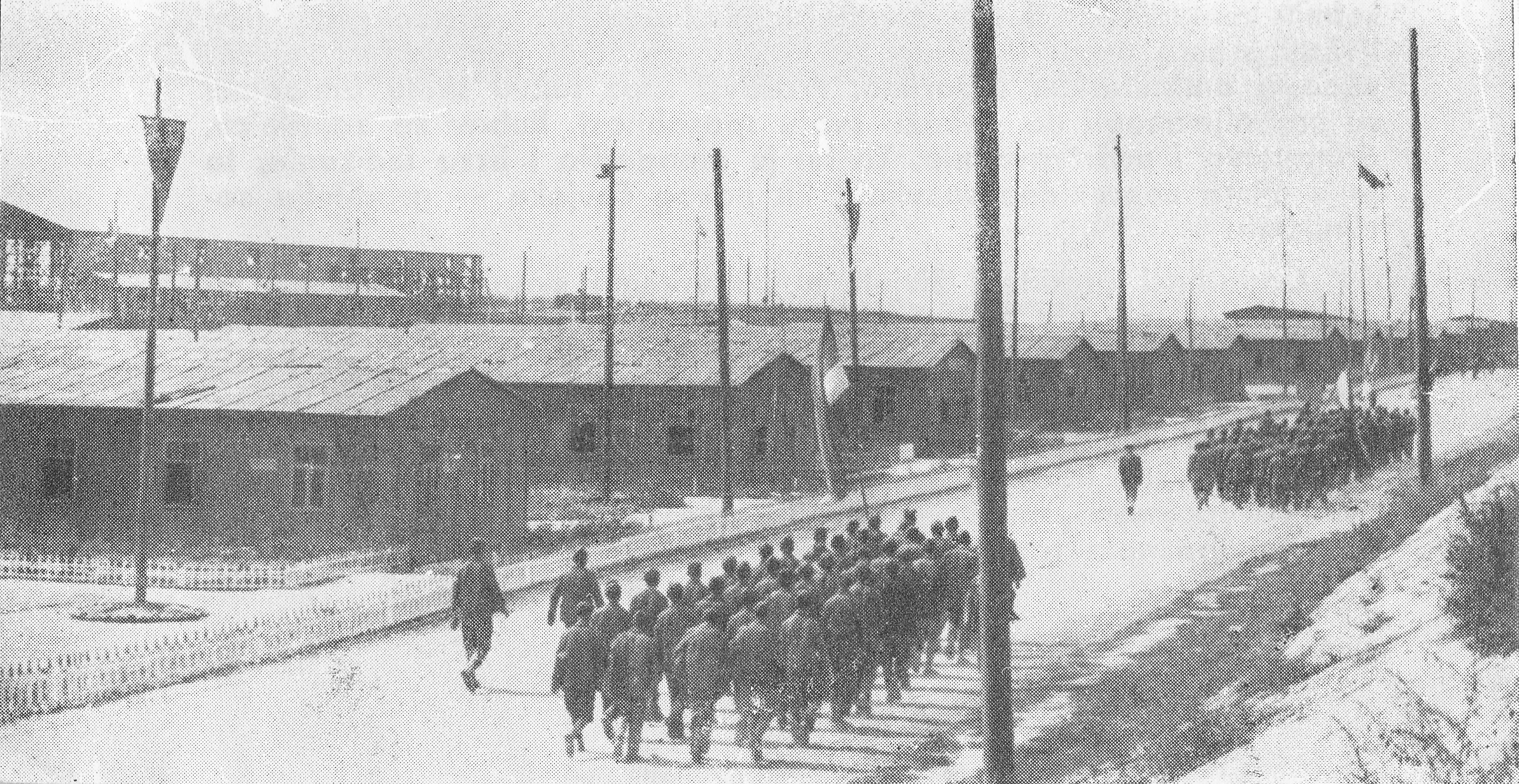 Volunteer brigades returning to the camp after the work (New Belgrade, Yugoslavia 1948-1950) Srpski (latinica): Vračanje u logor nakon rada, Novi Beograd